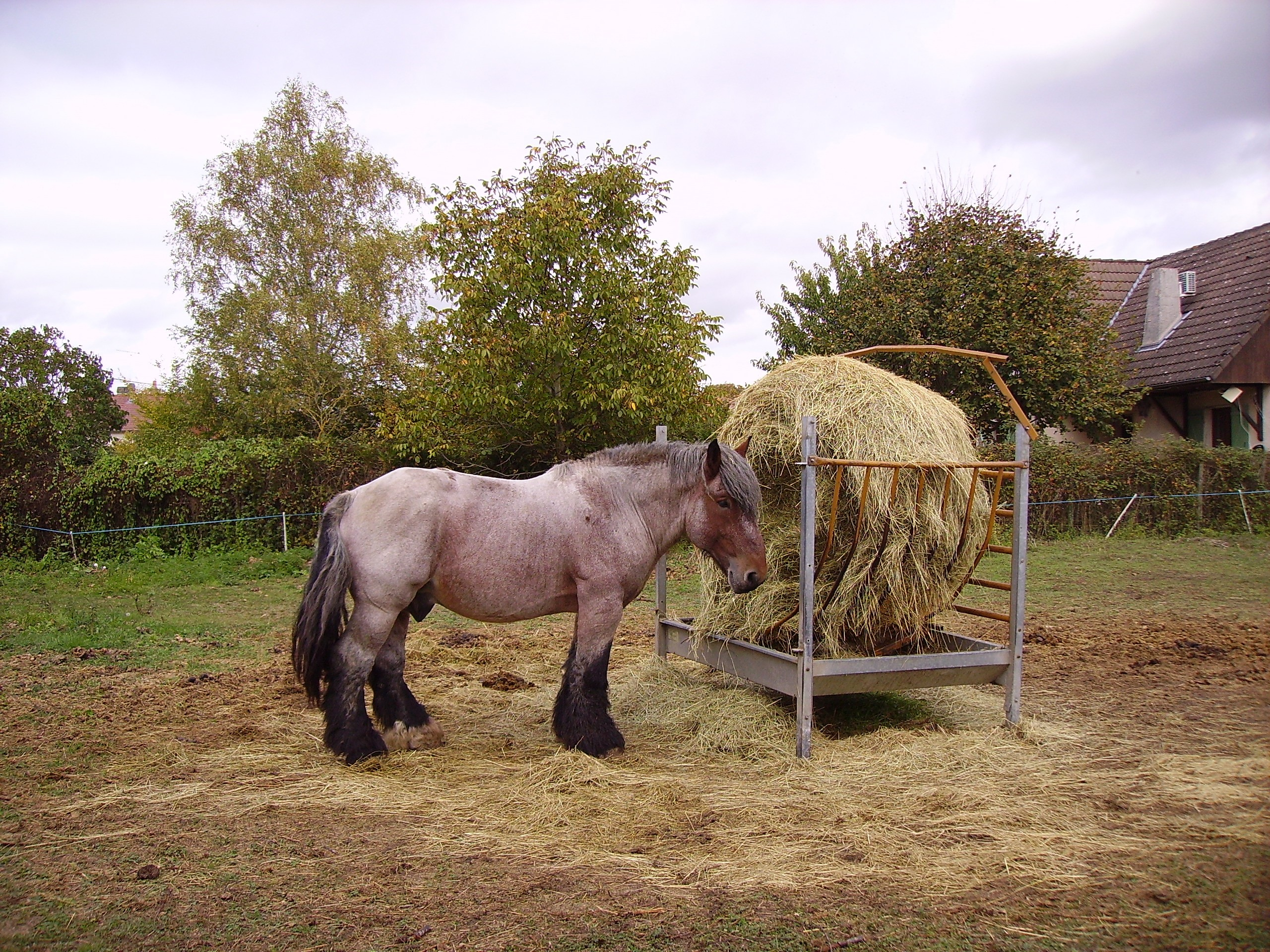 Clément, Auxois horse, near round hay bale in Burgundy, France.